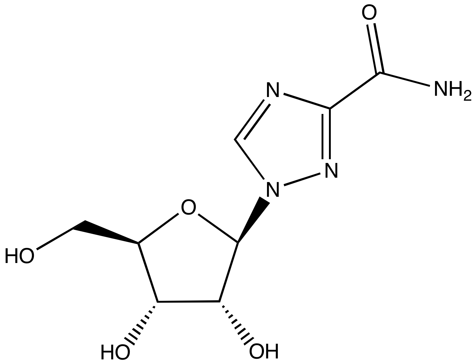 Structure of Ribavirin